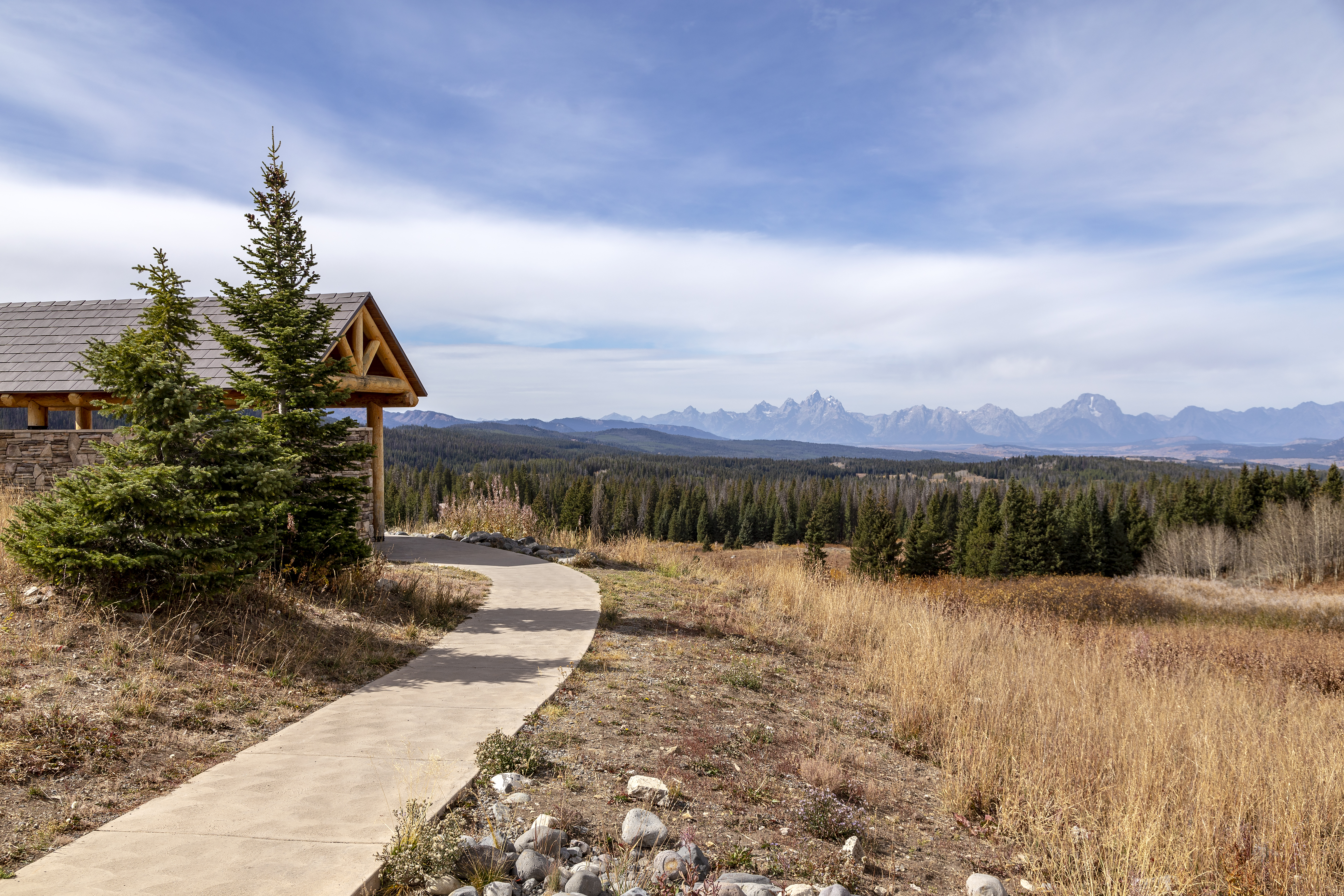 View of the Teton Range from the Togwotee Pass turnout and shelter, Wyoming, USA. The Tetons are about 30 miles/50 km away.